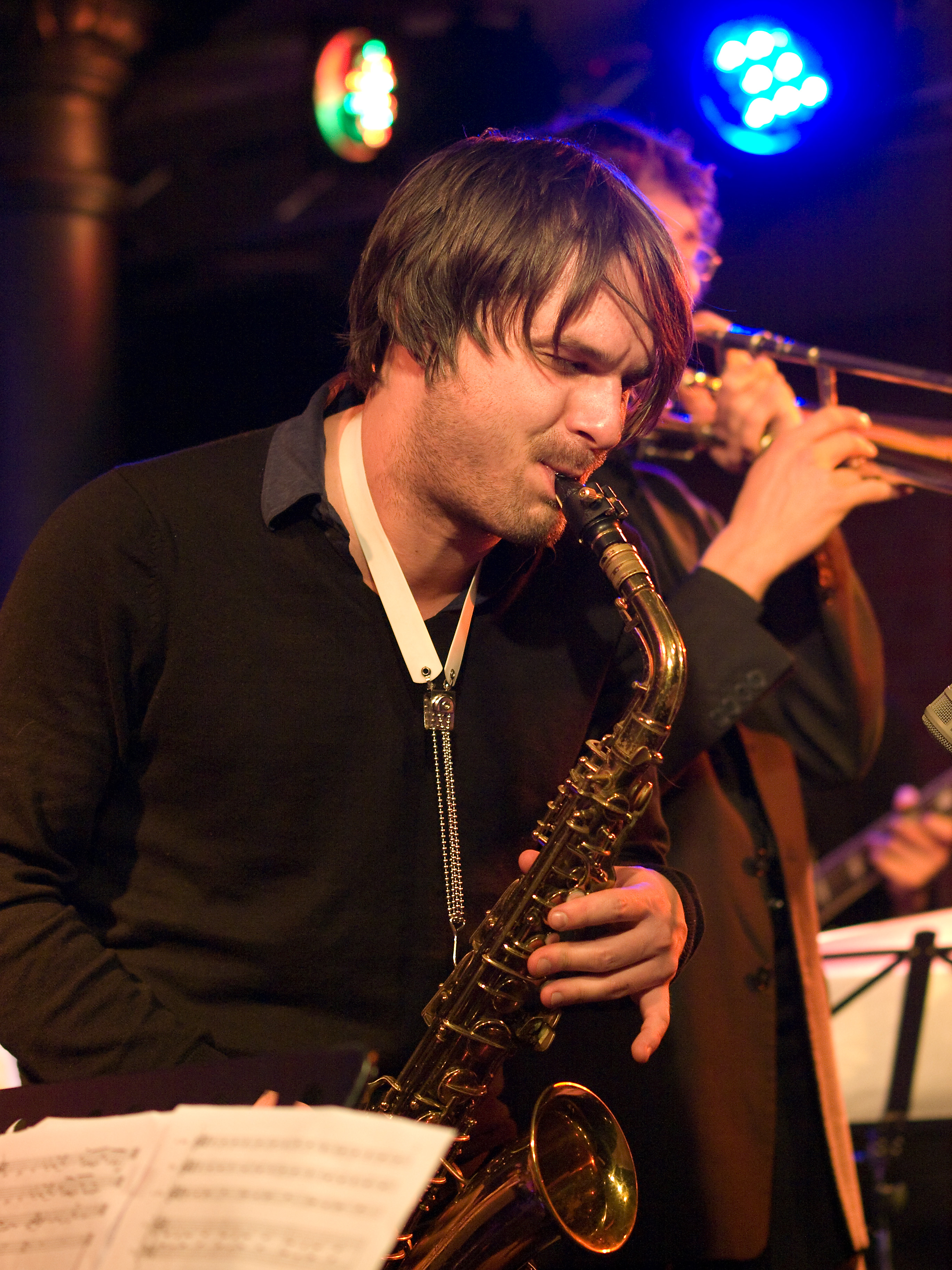 Wanja Slavin, jazz saxophonist, picture taken in Jazz club "Unterfahrt" in Munich/Germany